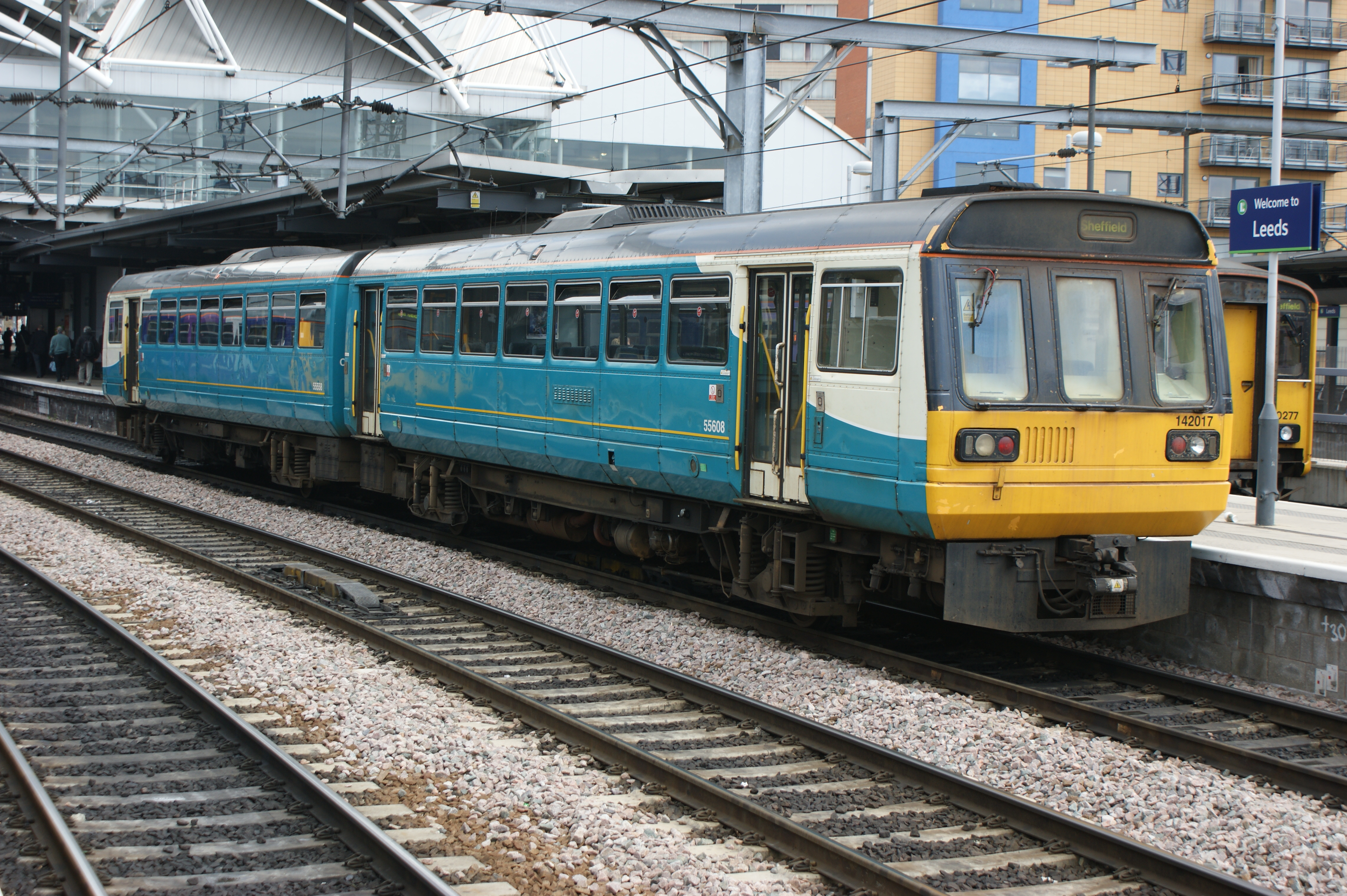 BREL (Derby)/Leyland Class 142 "Pacer" 2-car dmu No.142 017 of Northern Rail but in debranded Arriva Trains Wales livery at Leeds on a Bradford via New Pudsey service, 4/08.